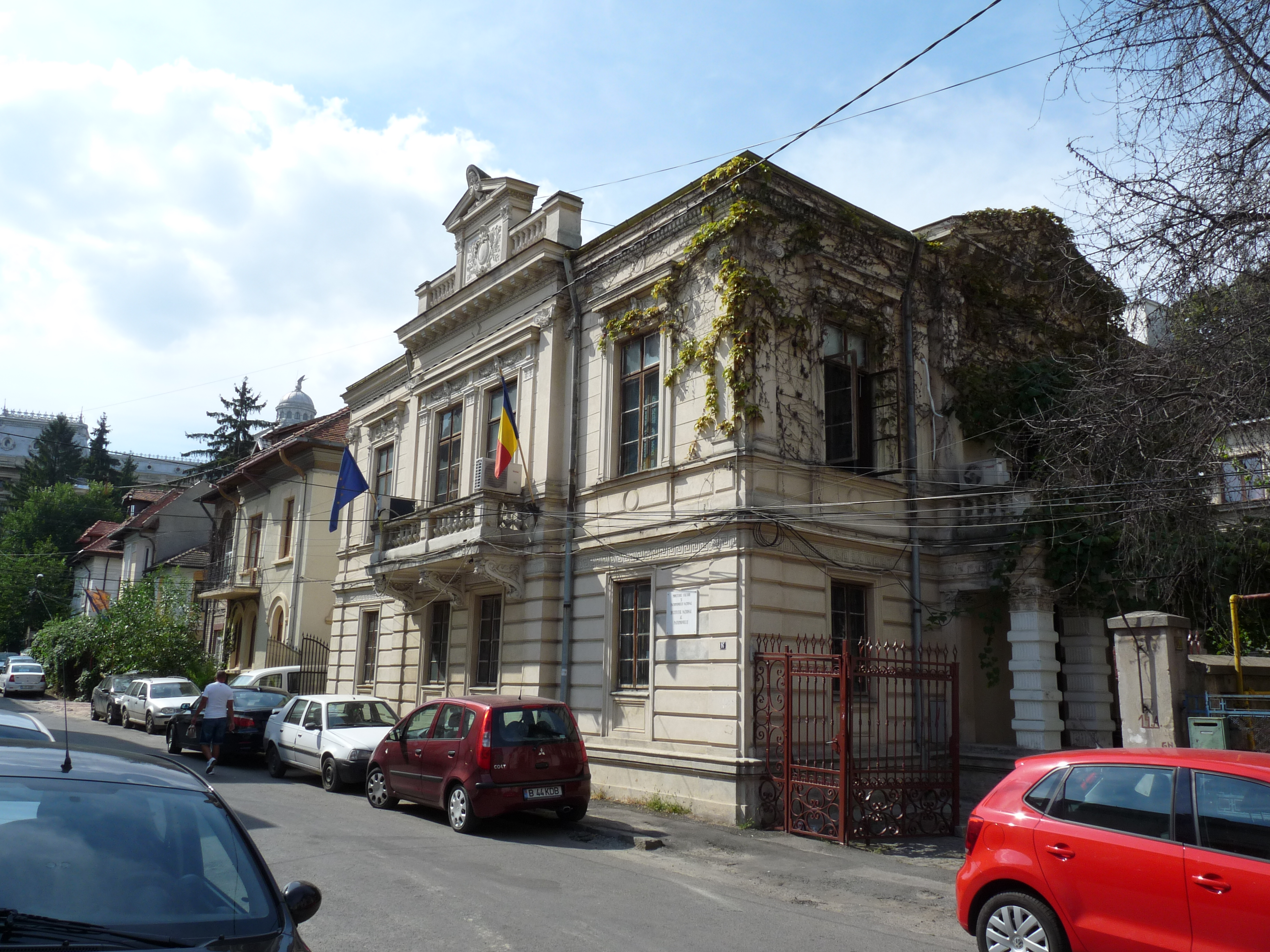 Ienăchiţă Văcărescu house in Bucharest, RomaniaRomână: Casa Ienăchiţă Văcărescu din Bucureşti, România